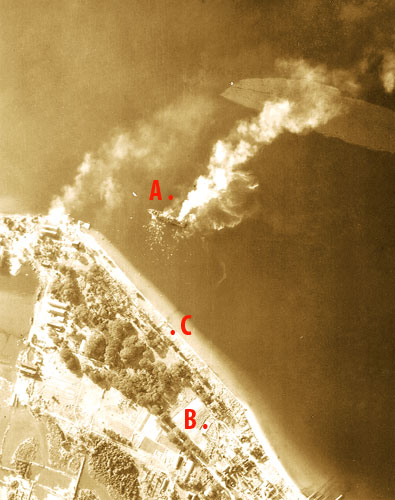 Attack on Oryoku Maru 15 Dec 1944 by Hellcat fighter from USS Hornet (CV-12).